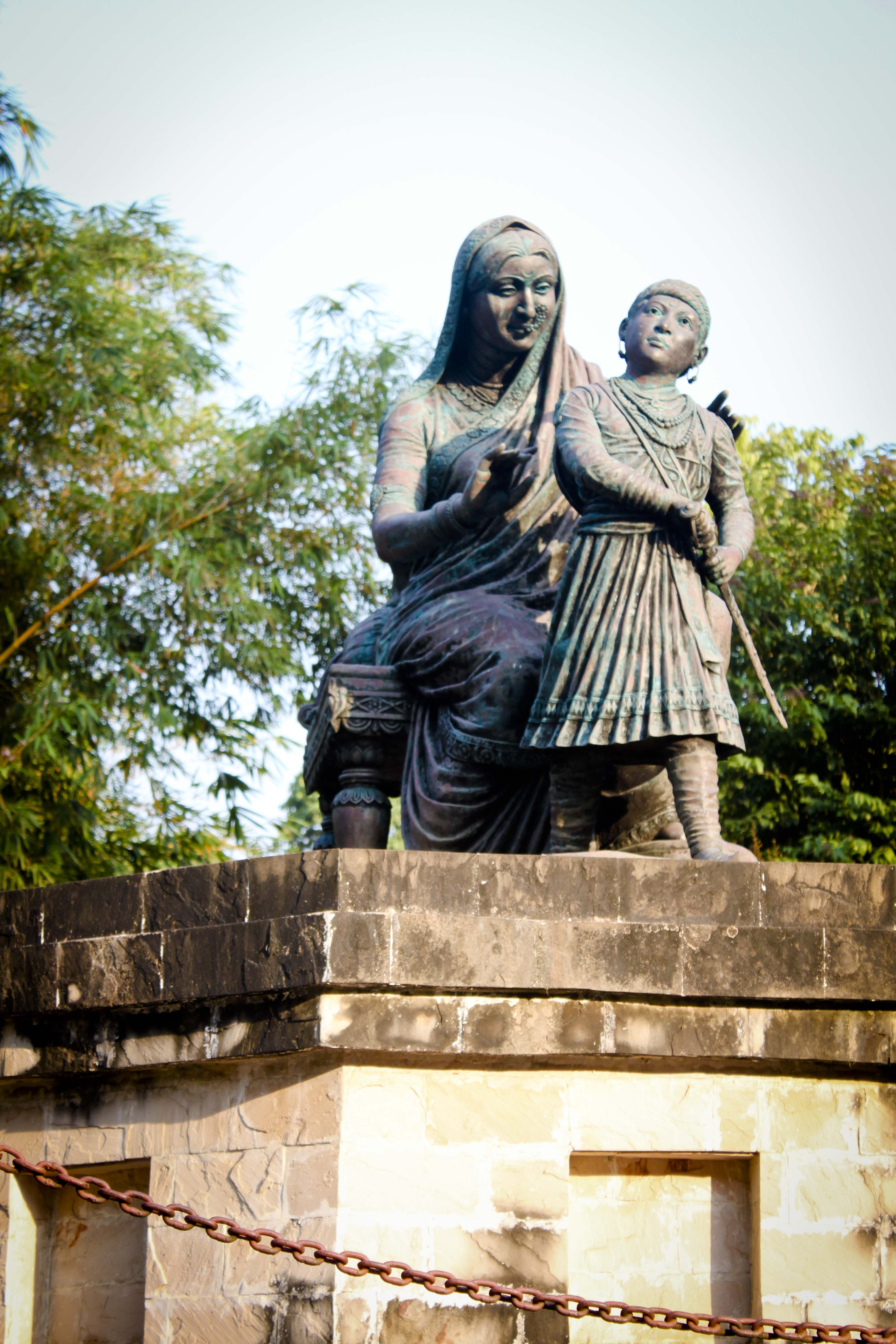 This image was captured at ‘Jijamata Prani Sangrahalay’ Mumbai Maharashtra.